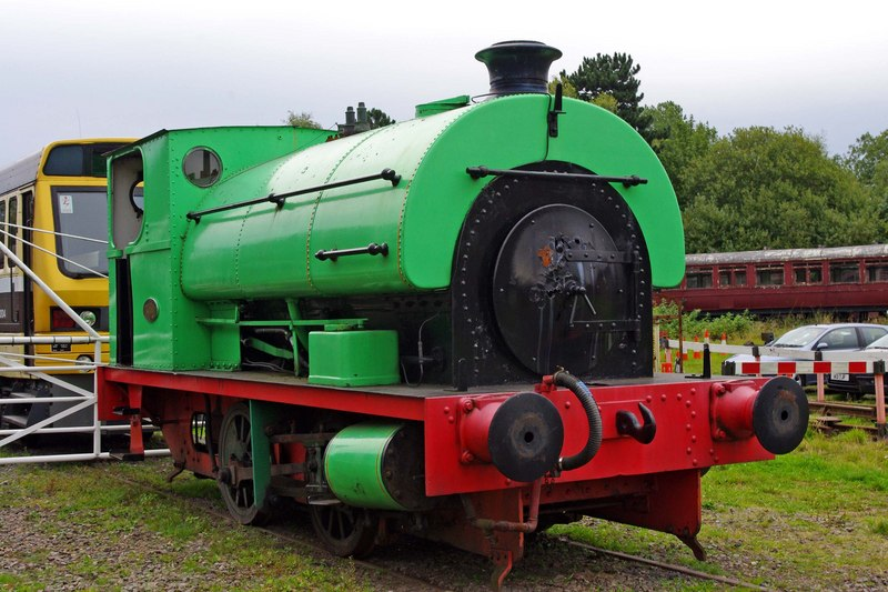 Peckett "Ironbridge No 3" at Telford Steam Museum. An industrial 0-4-0ST steam saddle tank locomotive, built by Peckett & Sons Ltd of Bristol, in 1940, for the West Midlands Joint Electricity Authority's power station at Ironbridge. It retired from there in 1980 and was... more